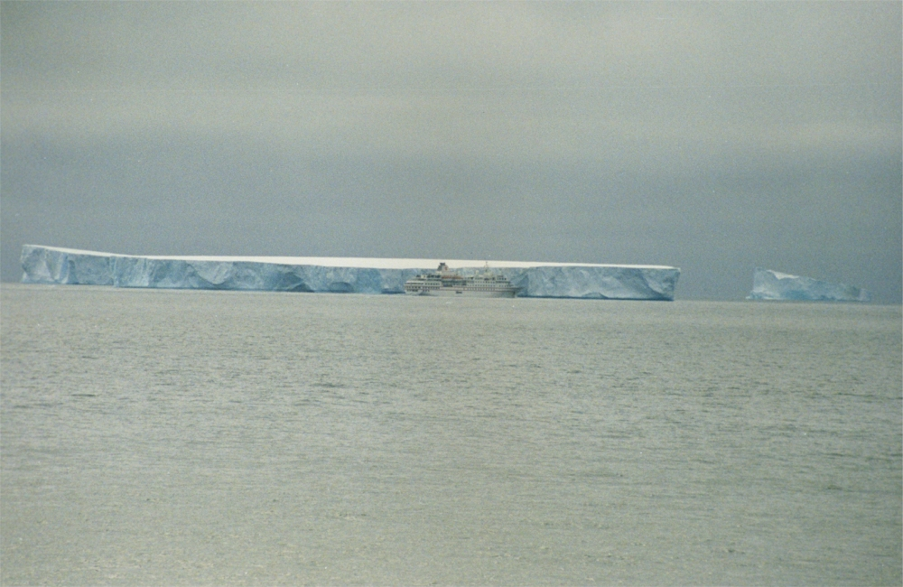 Cruise ship and iceberg in Antarctica. The picture is a scan of an old film picture. The picture was taken by Brocken Inaglory